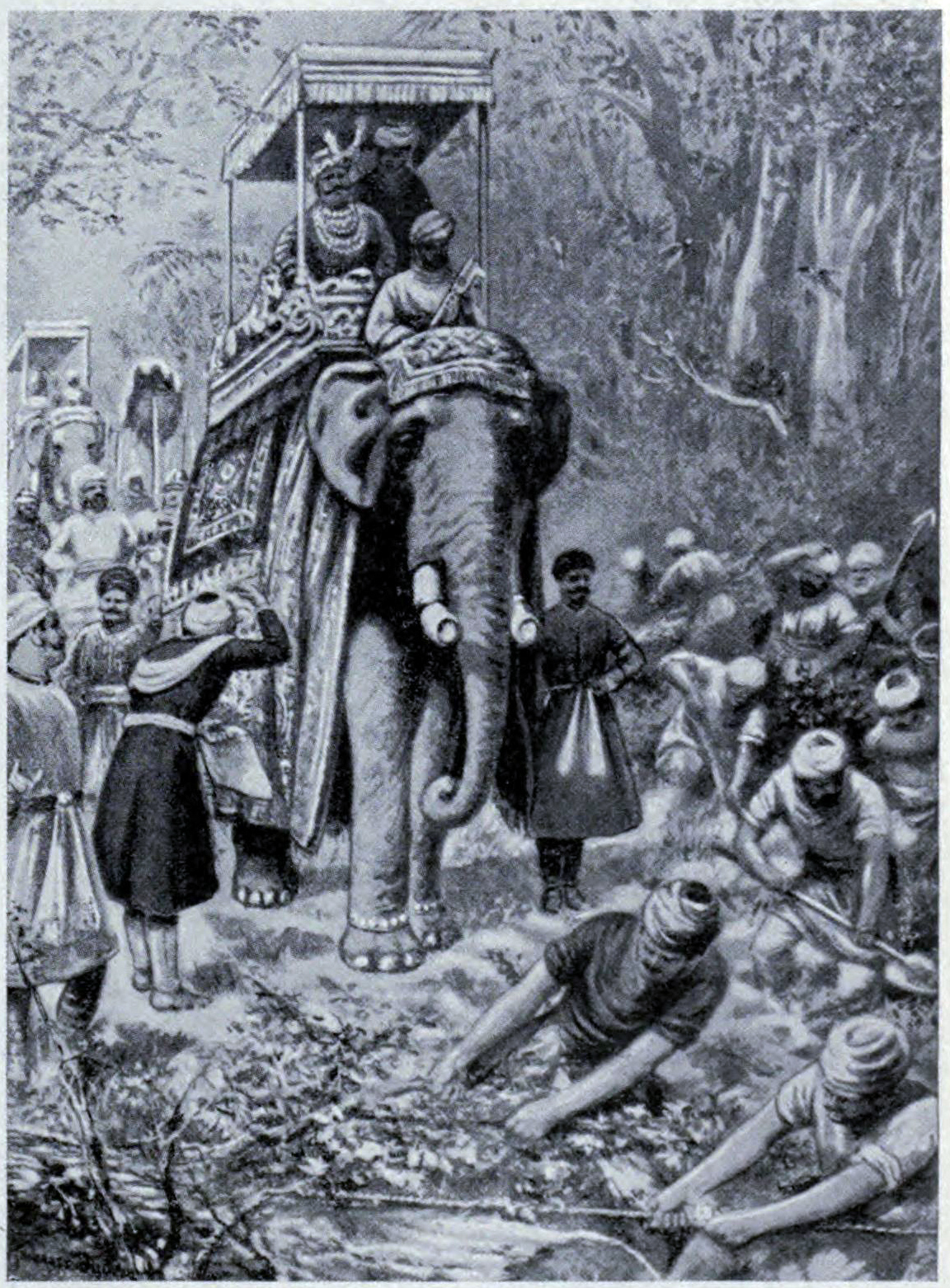 Hutchinson's story of the nations, containing the Egyptians, the Chinese, India, the Babylonian nation, the Hittites, the Assyrians, the Phoenicians and the Carthaginians, the Phrygians, the Lydians, and other nations of Asia Minor.